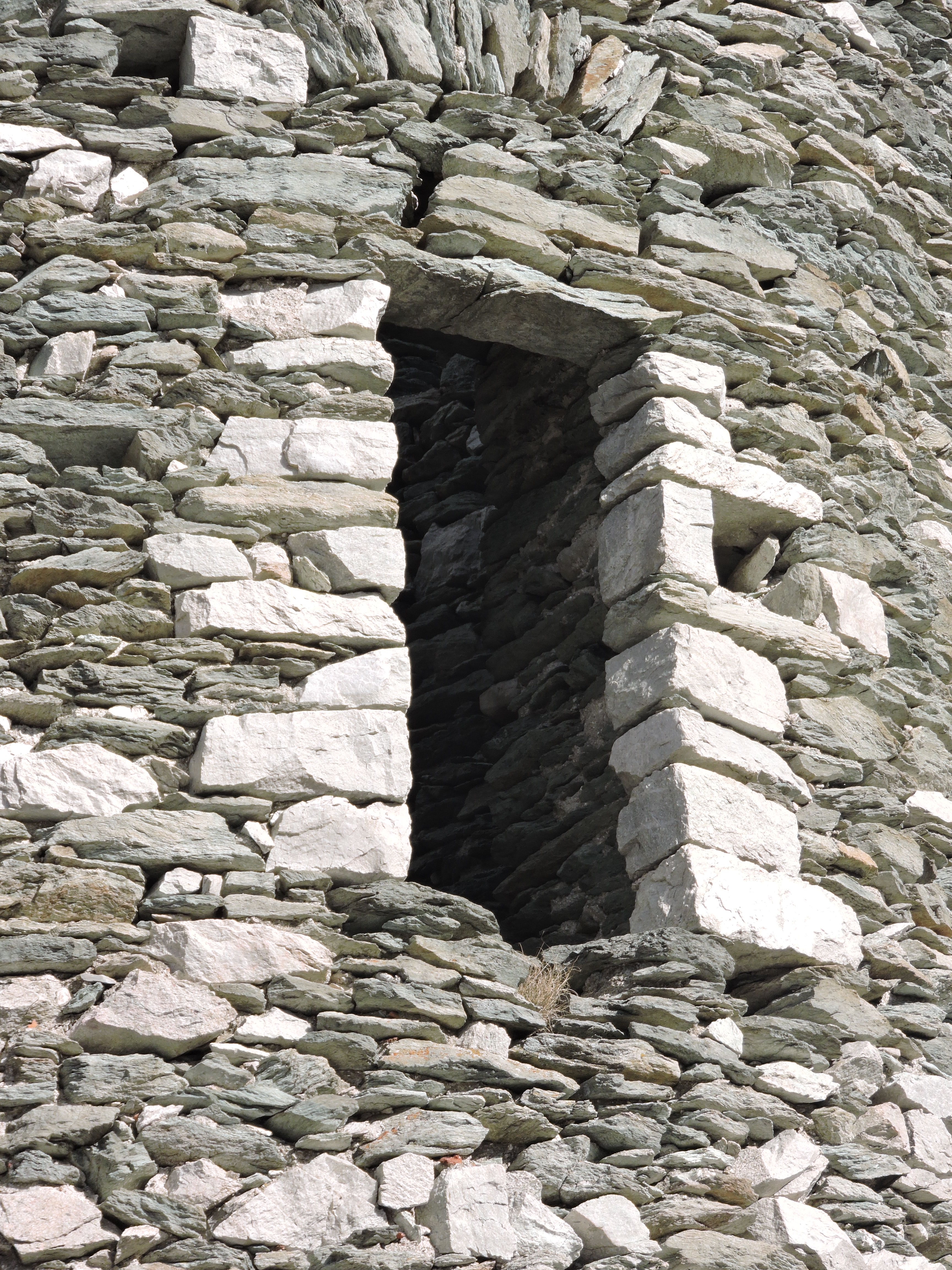 Barchi tower (Upper Tanaro Valley, CN, Italy)